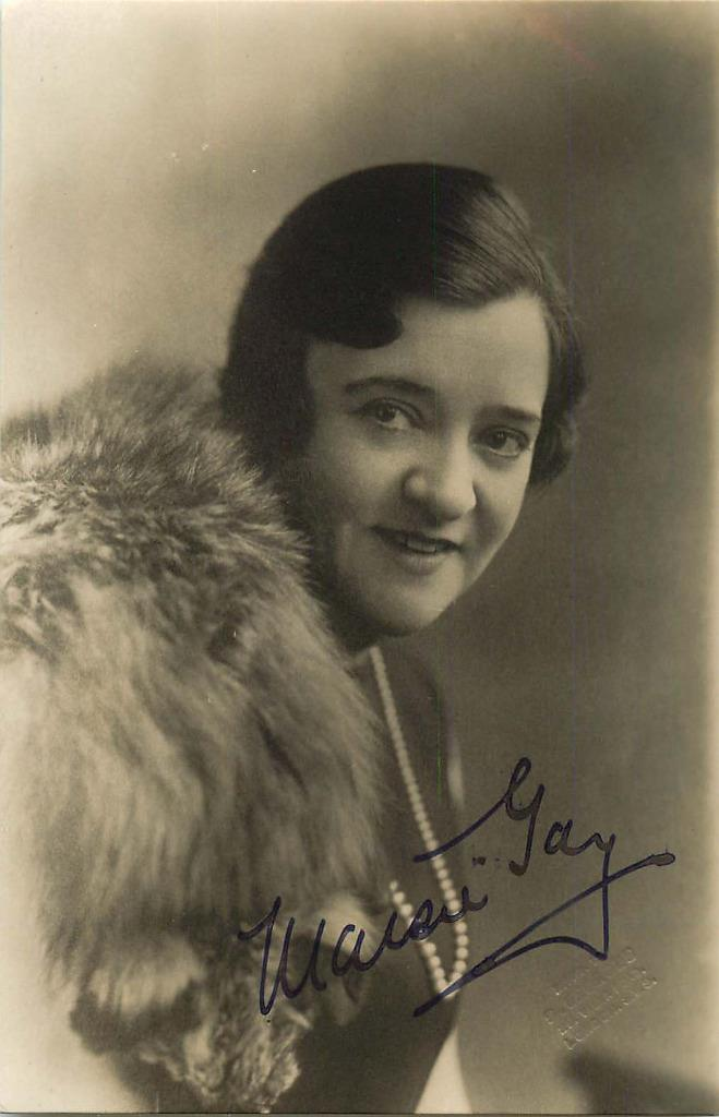 Maisie Gay, born Maud Daisy Noble (7 January 1878 – 13 September 1945), was an English actress and singer. This picture must have been taken before 1945 and she took some authorship when she signed it.